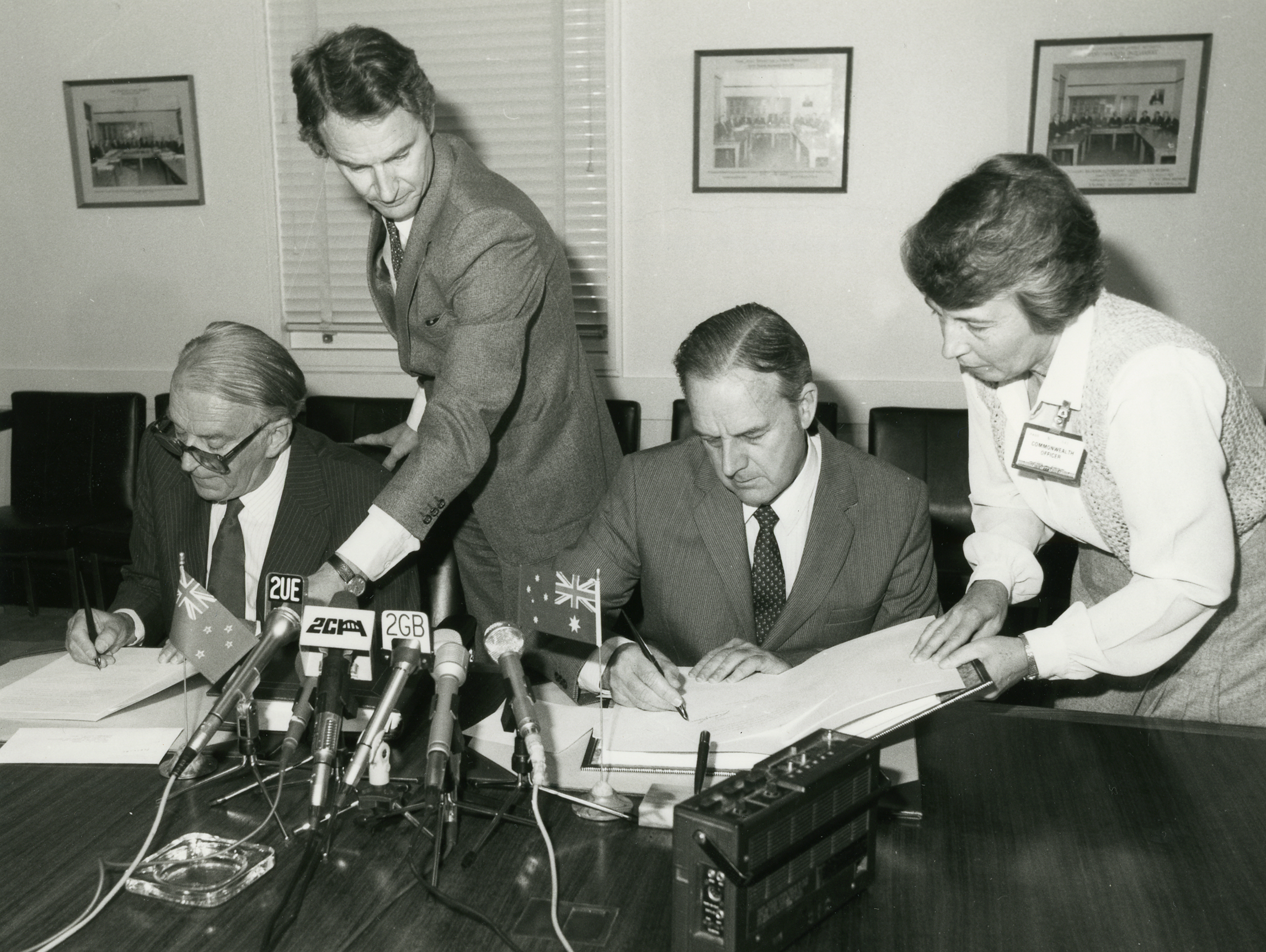 On 28 March 1983 the Australia New Zealand Closer Economic Relations Trade Agreement (CER) was signed. The agreement came into force on January 1 1983 but was not signed until the 28 March. The agreement was signed by Australian Deputy Prime Minister Lionel Bowen and the New Zealand High Commissioner to Australia, Sir Laurie Francis. One of the most important results of CER was the Protocol on the Acceleration of Free Trade in Goods, which resulted in the total elimination of tariffs or quantitative restrictions between the two countries by 1 July 1990, five years ahead of schedule. Other parts of CER include: goods that can be legally sold in one country can also be legally sold in the other, anyone registered to practice an occupation in one country may practise in the other (with some exemptions including medical practitioners), and service providers may provide services in either country (except in certain areas such as airway services) Further information on the agreement can be found on the Ministry of Foreign Affairs and Trade website: The image presented here is from a collection of photographs transferred to Archives New Zealand by the Ministry of Foreign Affairs and Trade. Mr Lionel Bowen and Mr Laurie Francis can be seen signing the agreement in Canberra [AAEG 626 W2879 1/a 1]. This item can be viewed in our Wellington Reading Room. For updates on our On This Day series and news from Archives New Zealand, follow us on Twitter Material supplied by Archives New Zealand